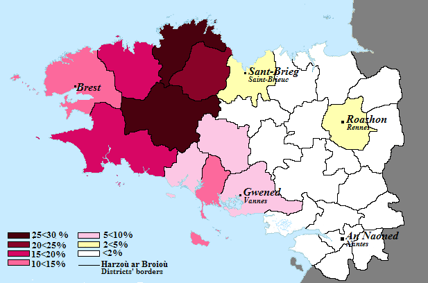 Number of breton speakers in each country of Brittany, in 2004